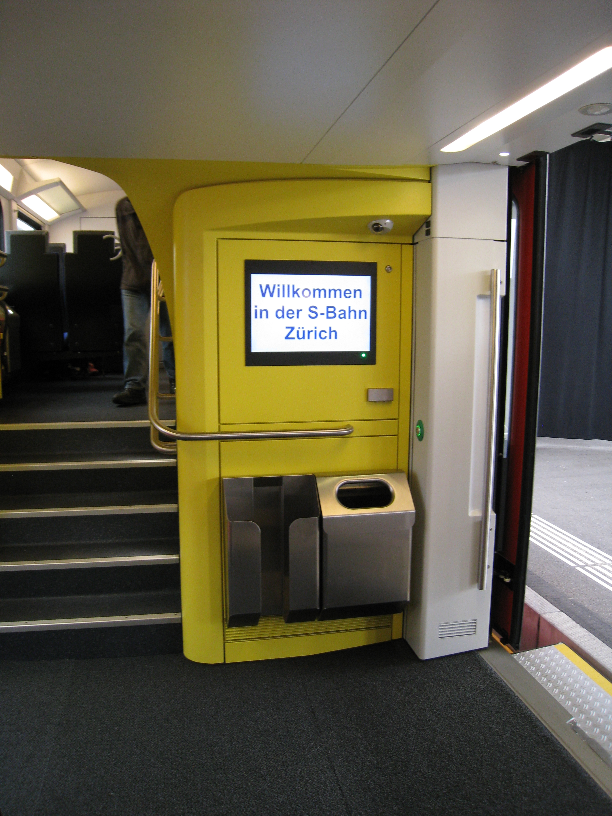 Entrance of the SBB-CFF-FFS RABe 511 EMU (Stadler KISS).